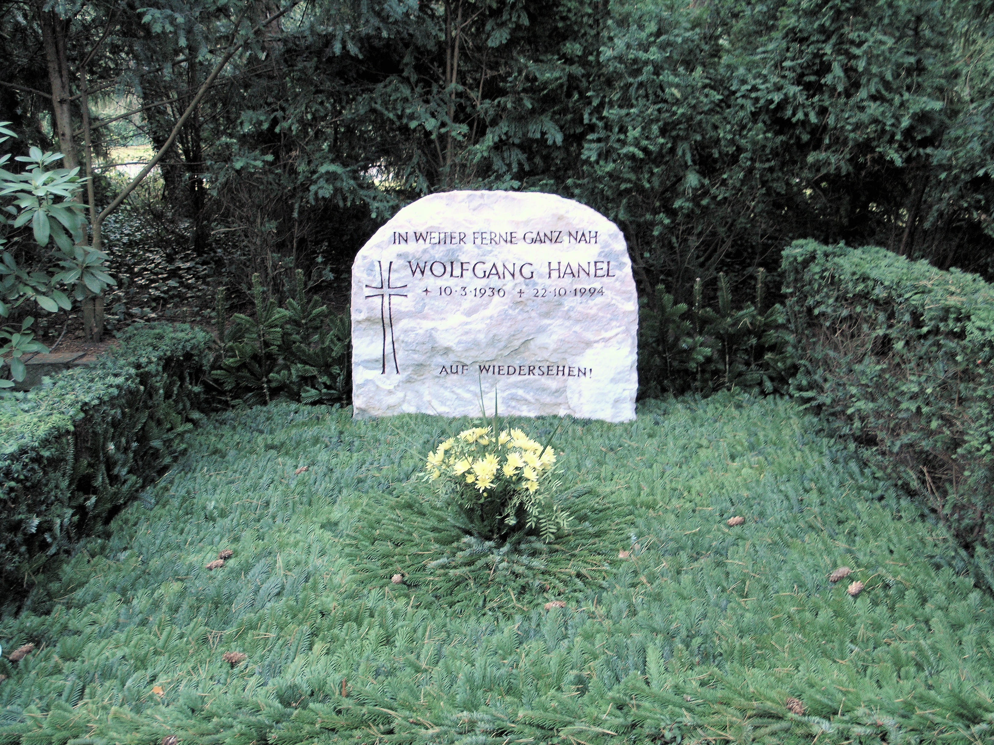 Grave of Wolfgang Hanel, Hüttenweg 47, Berlin-Dahlem, Germany Koordinate:52°27′20″N 13°15′49″E / 52.45556°N 13.26361°E